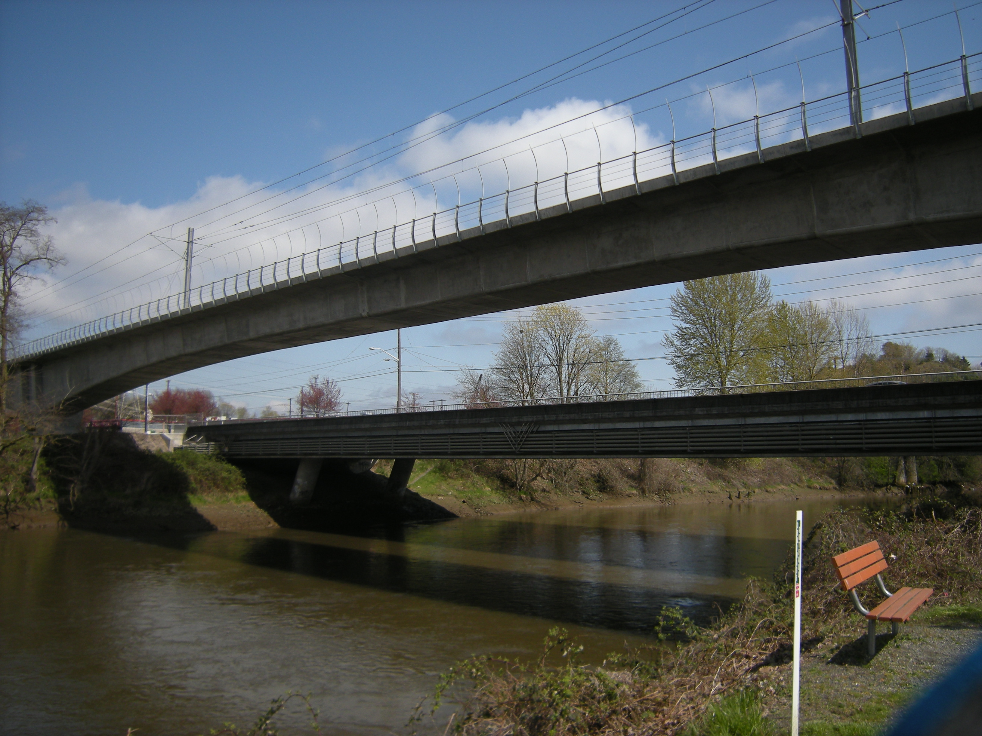 Sound Transit Link Light Rail crosses the upper Duwamish River, Tukwila, Washington, just east of Tukwila International Boulevard. The low bridge carries East Marginal Way S. This portion of the river runs east-west roughly along the line that would constitute S. 116th Street. Seen from Green River Trail along left bank of the river.